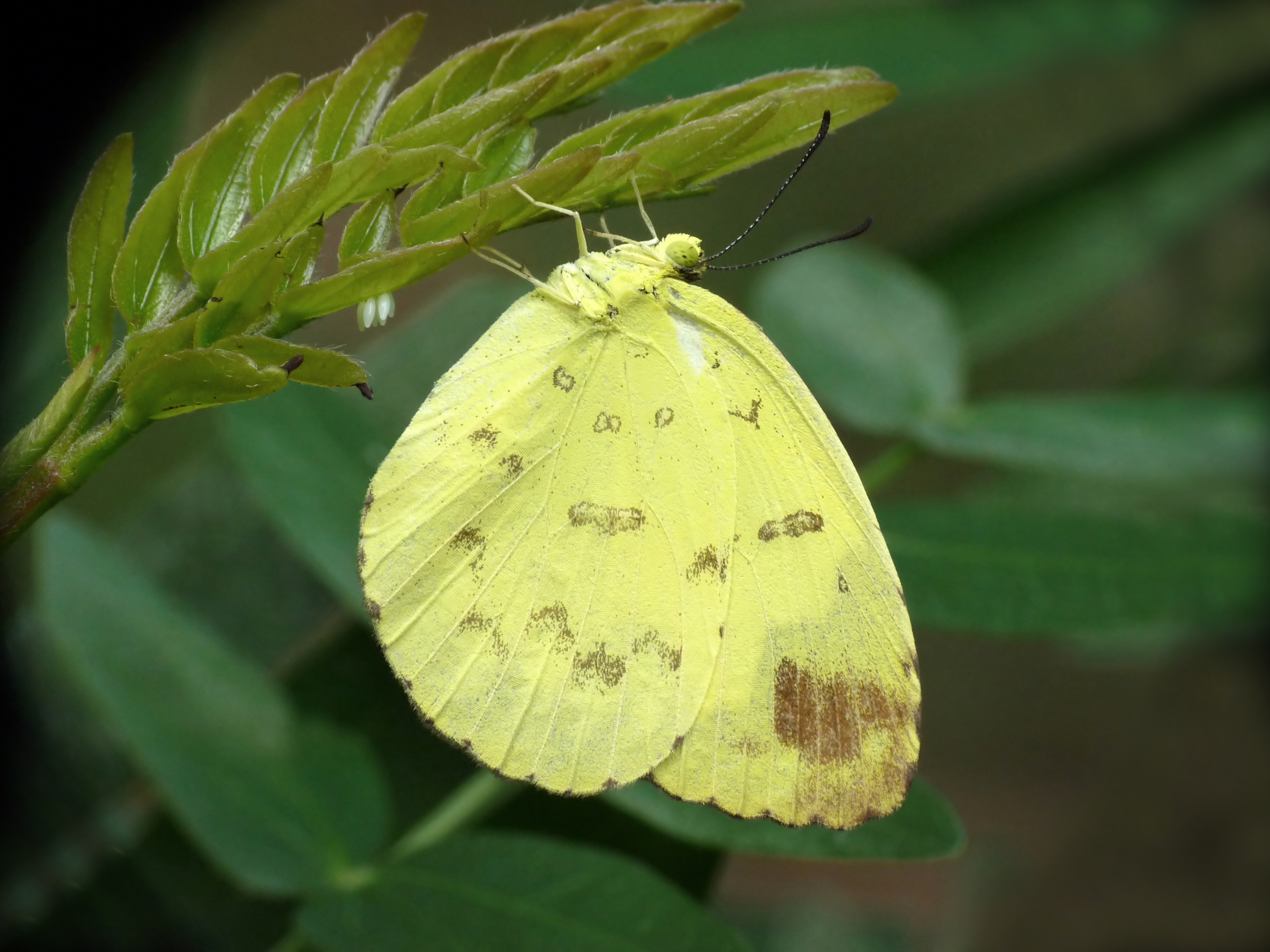 Three-Spot Grass Yellow, Eurema blanda, is a small butterfly of the Family Pieridae, that is, the Yellows and Whites, which is found in India. Here she is laying eggs on the young leaves of one of their host plant, Albizia julibrissin, Persian silk tree (Pink silk tree). Taken at Kadavoor, Kerala, India.